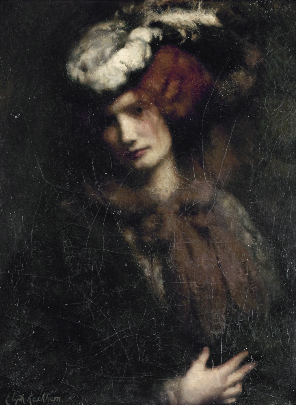 The grebe hat oil on canvas 665 x 475 mm signed b.l.: Edyth Rackham